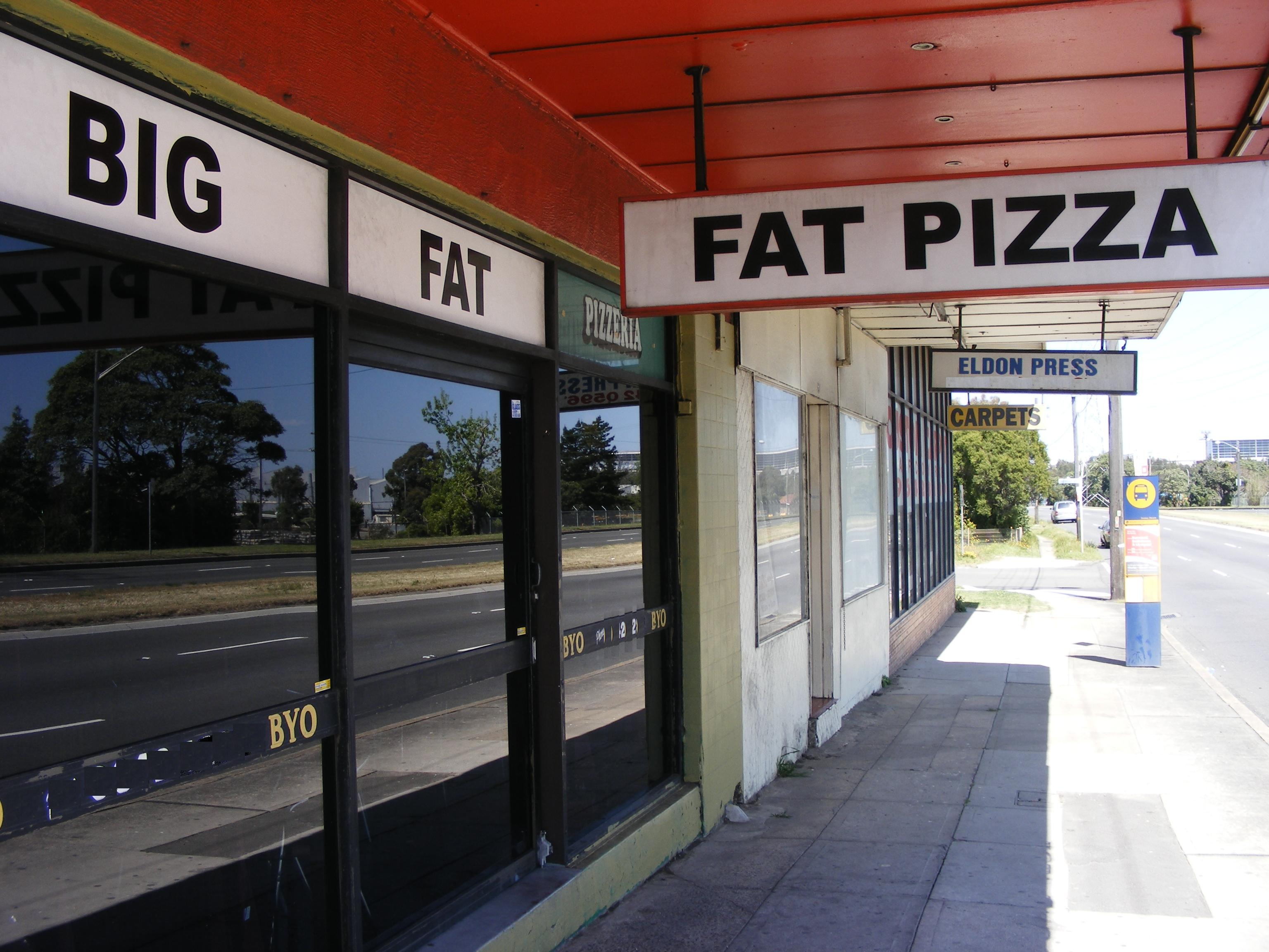 Shop that was used in several seen for the Fat Pizza Television Series.